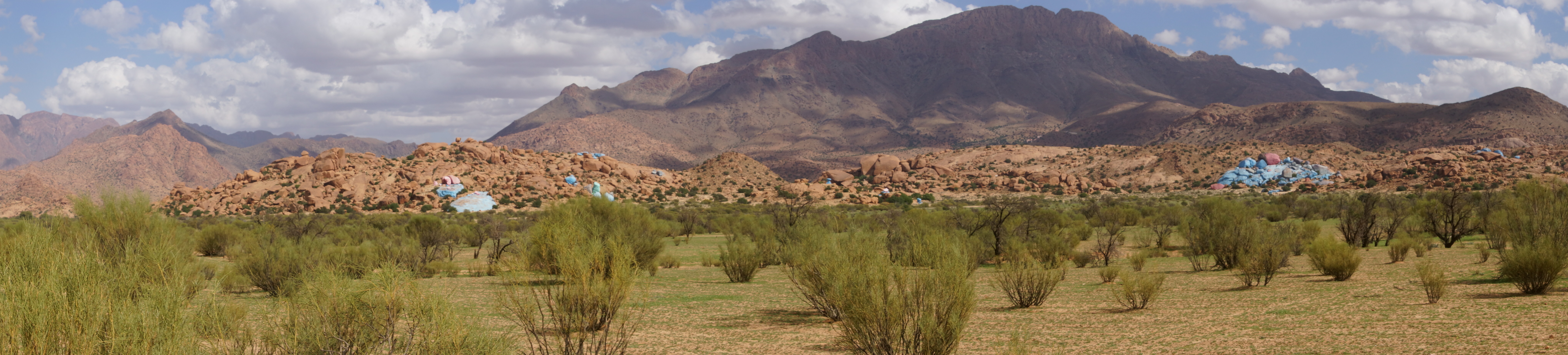 Painted boulders, mountains and rocks near Trafraoute (Morocco) by Jean Verame